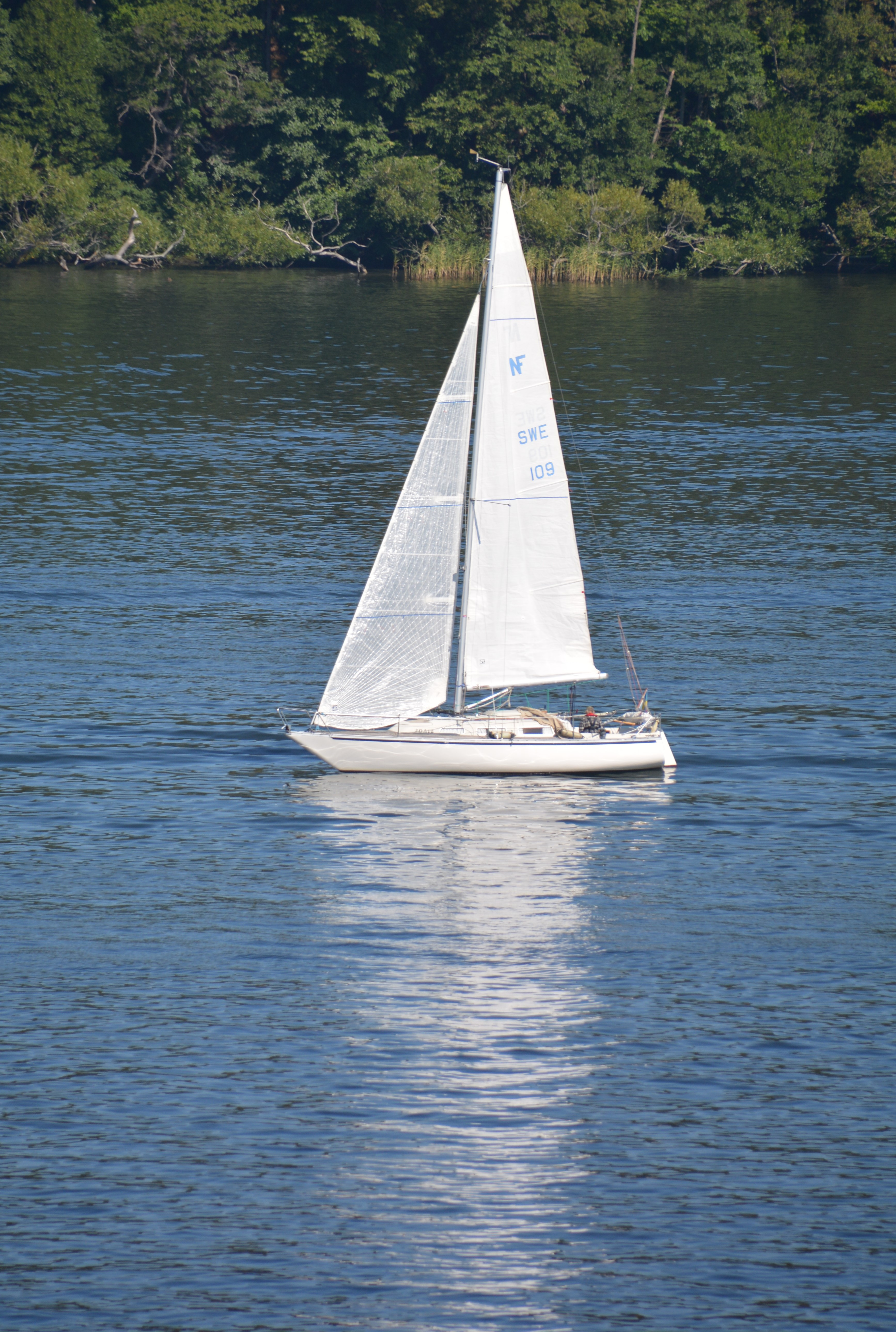 Sailing yacht, model Nordisk familjebåt (model Nordic Family Yacht)